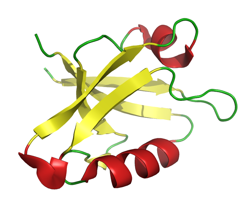 Cartoon representation of the PDZ domain of the GOPC (Golgi-associated PDZ and coiled-coil motif-containing protein) protein.